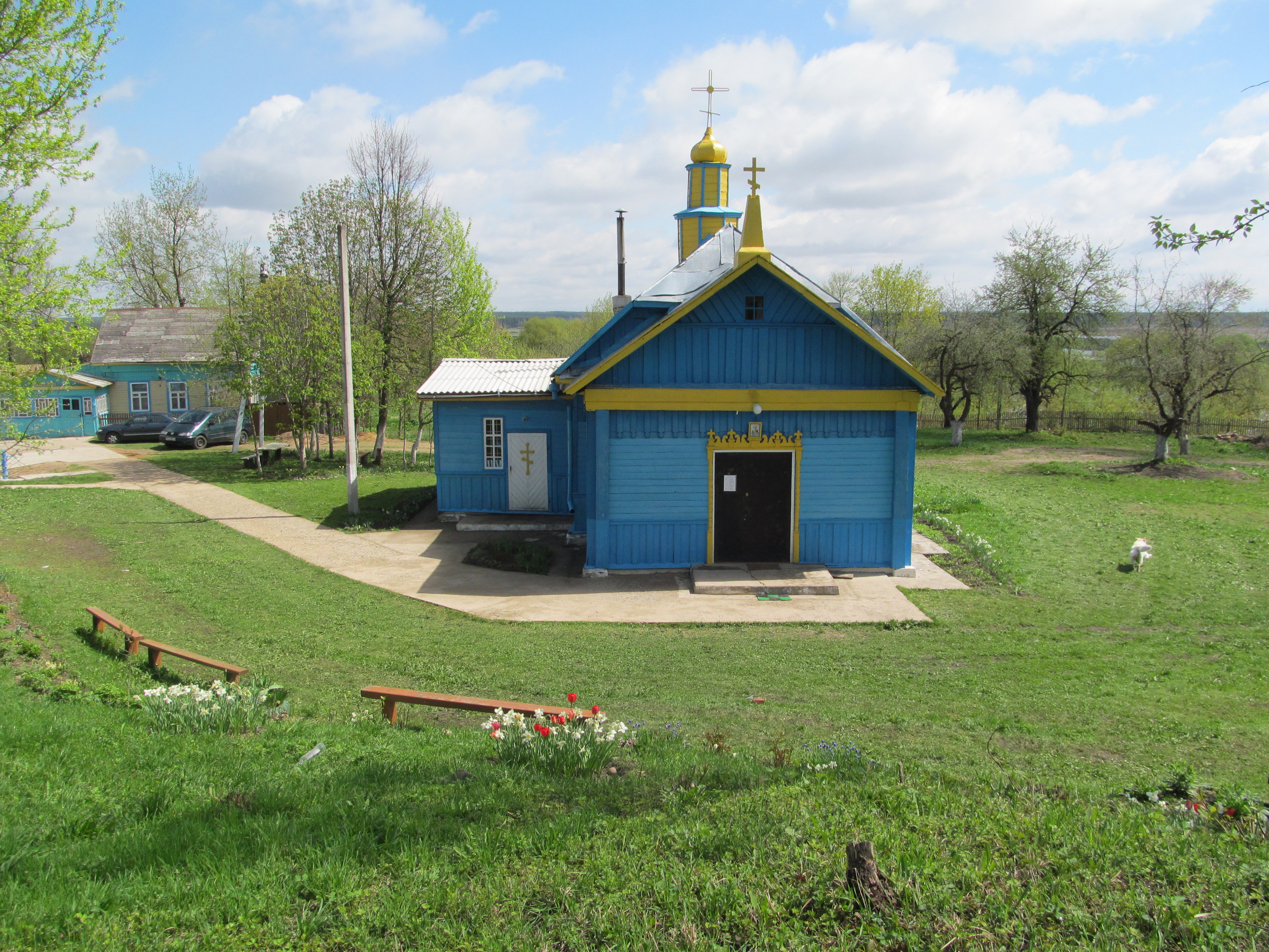 Saint Nicholas churches in Krichev, Belarus This is a photo of Belarusian heritage monument. Reference number: 513Г000482 ( WLM)